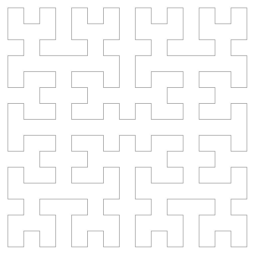 Hilbert Curve L3